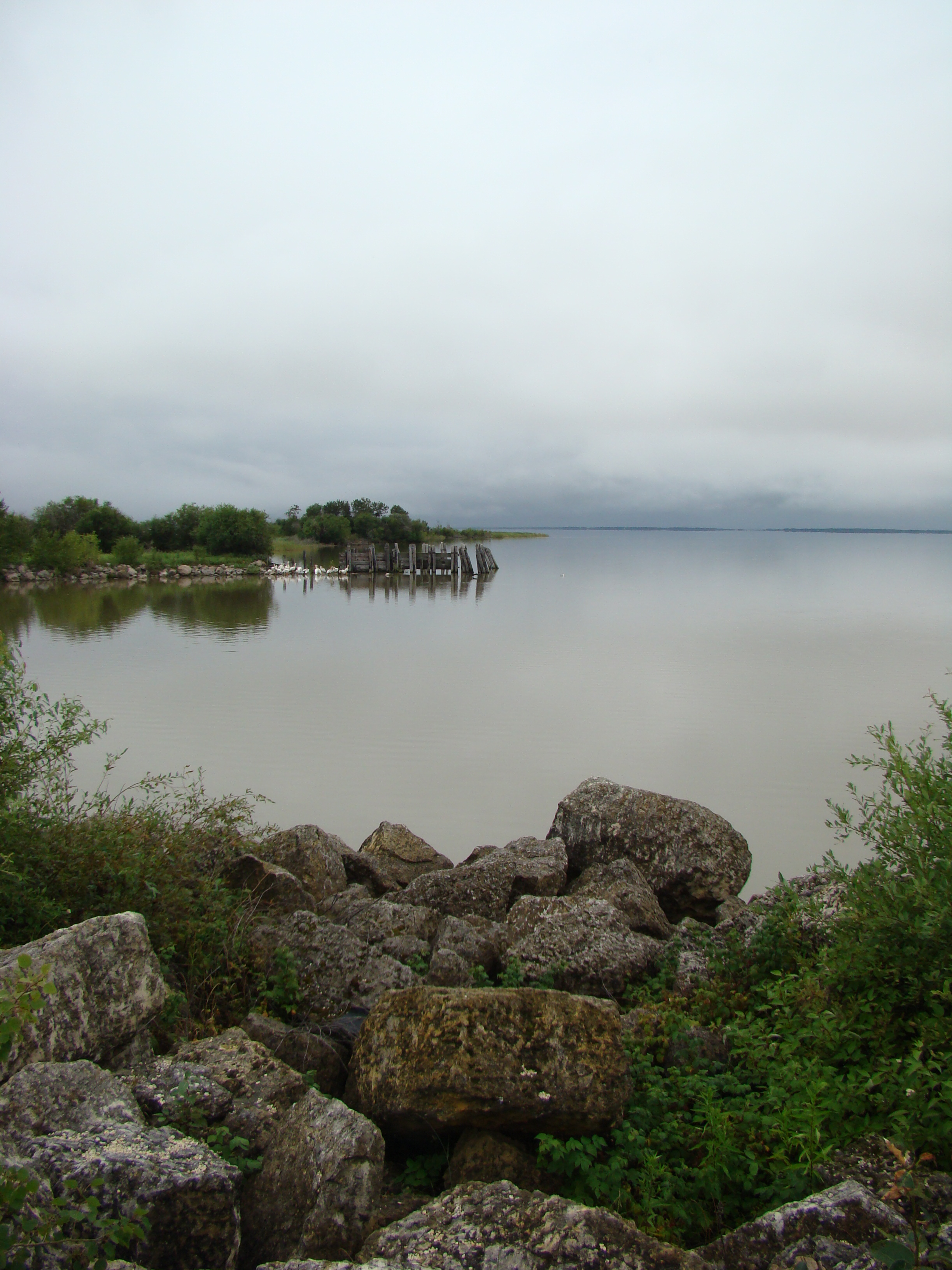 Hecla Island and Provincial Park in Lake Winnipeg Manitoba